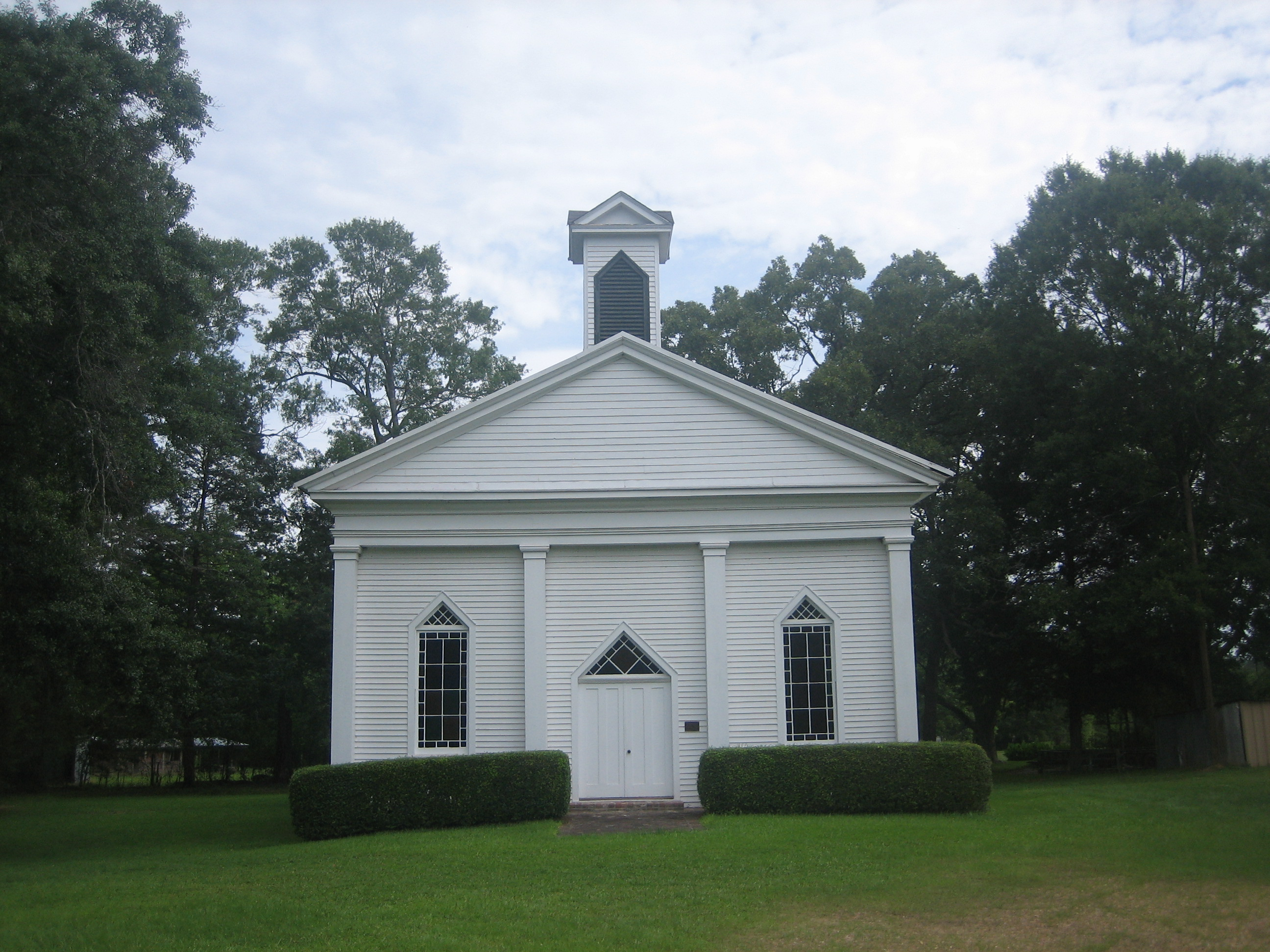 I took photo on May 27, 2009.Billy Hathorn (talk) 14:59, 31 May 2009 (UTC)